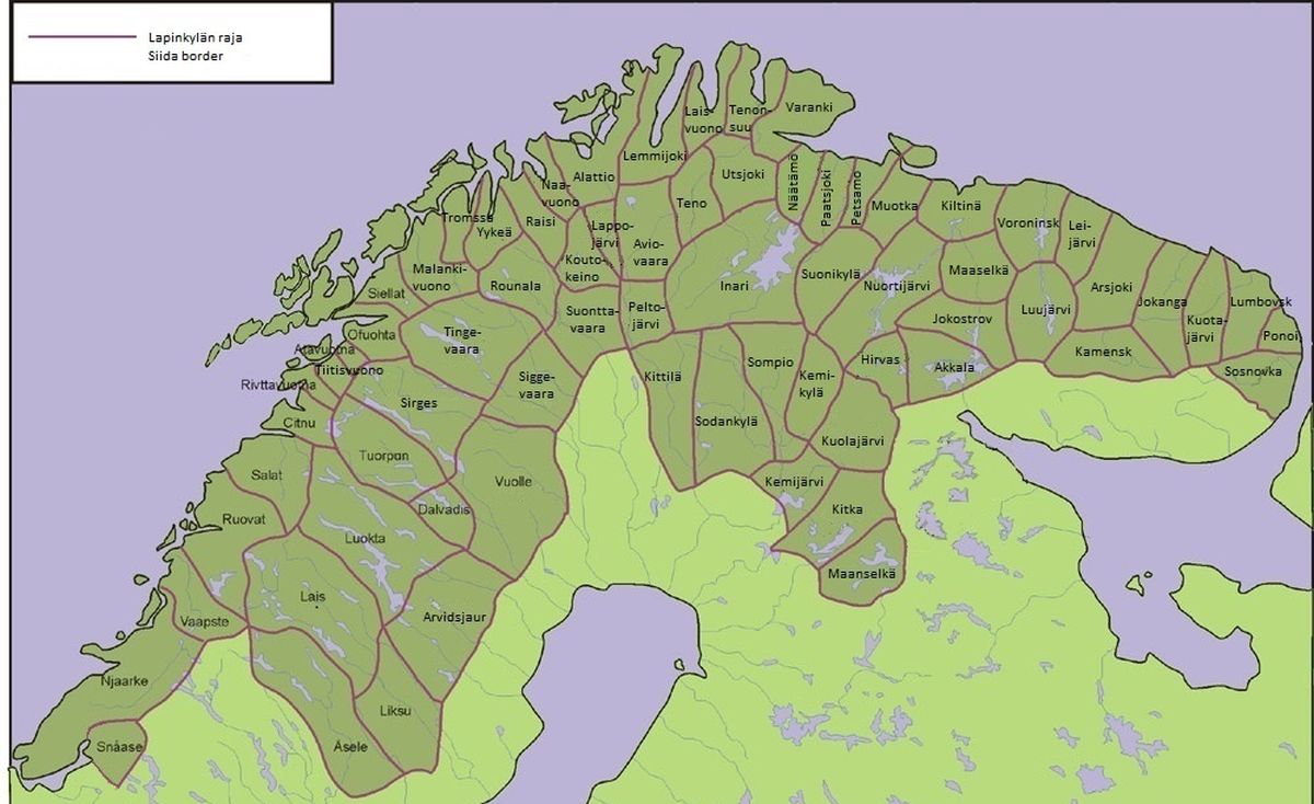 Sami communities in 17th century.